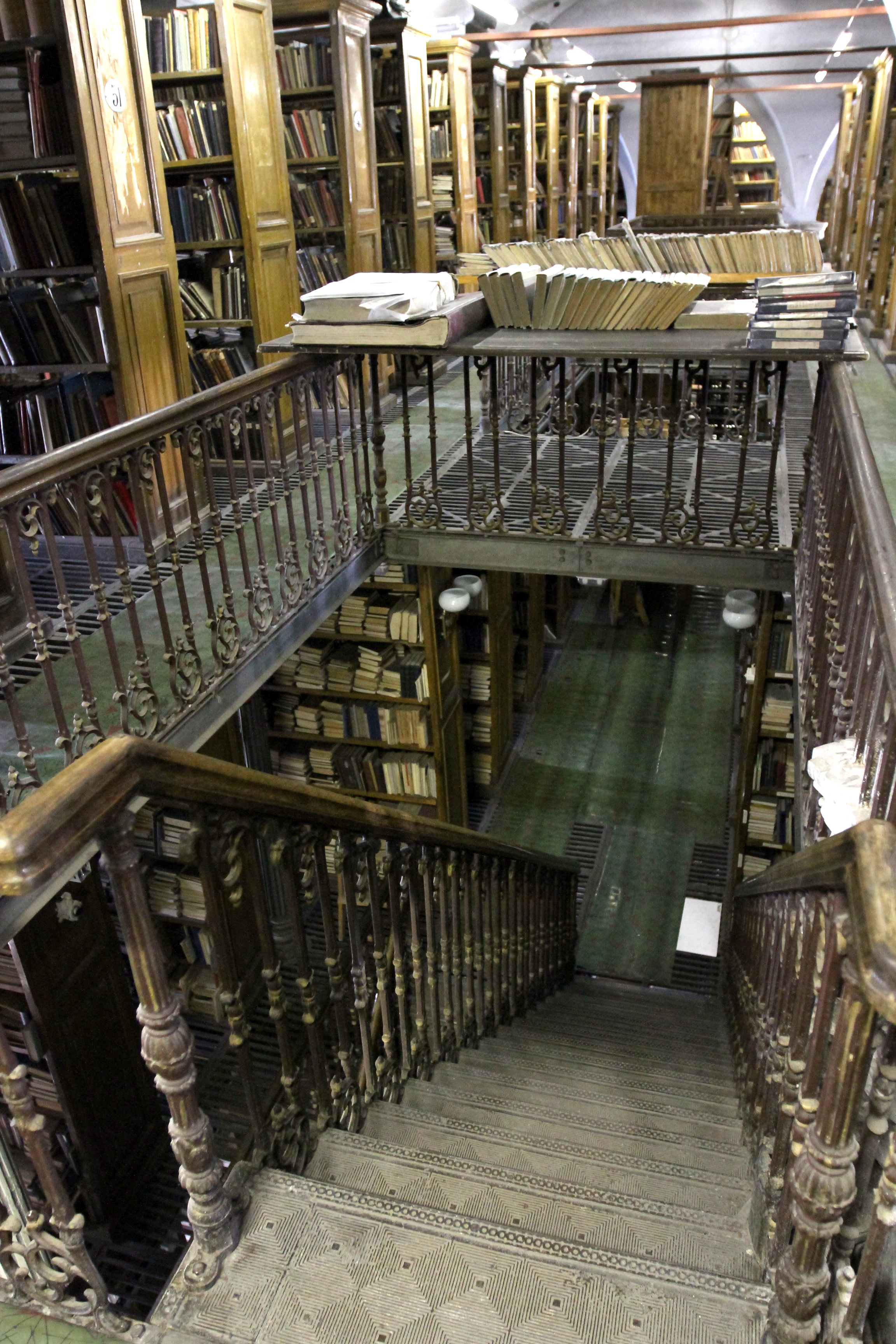 The Department of Rare Books and Manus­cript of Nikolai Lobachevsky Scientific Library